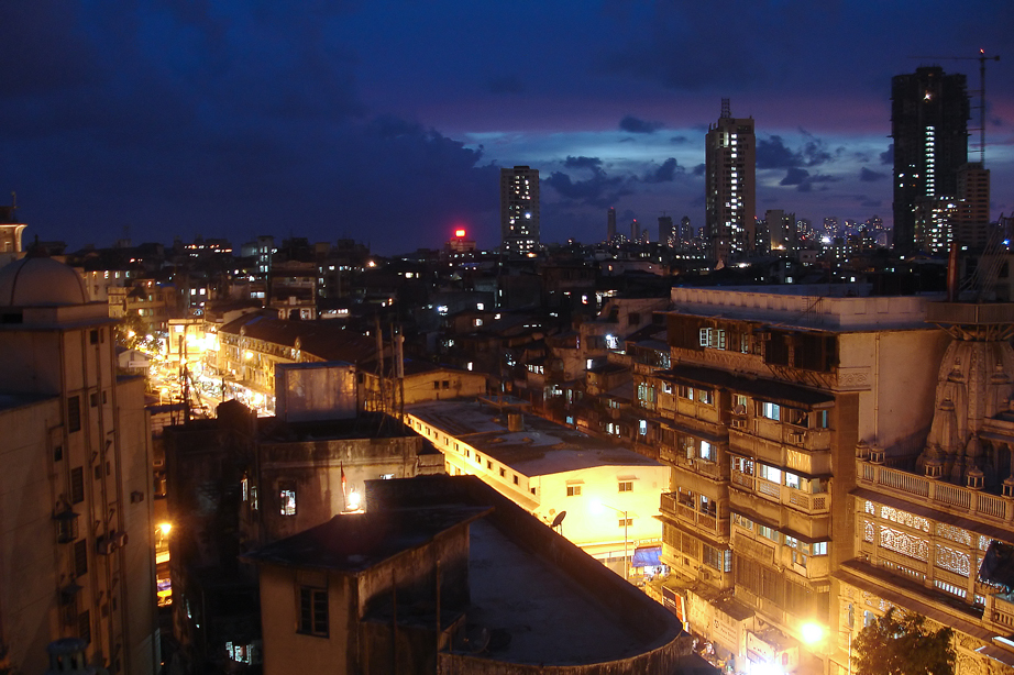 Picture of street lights in in Pydhonie, Mumbai.